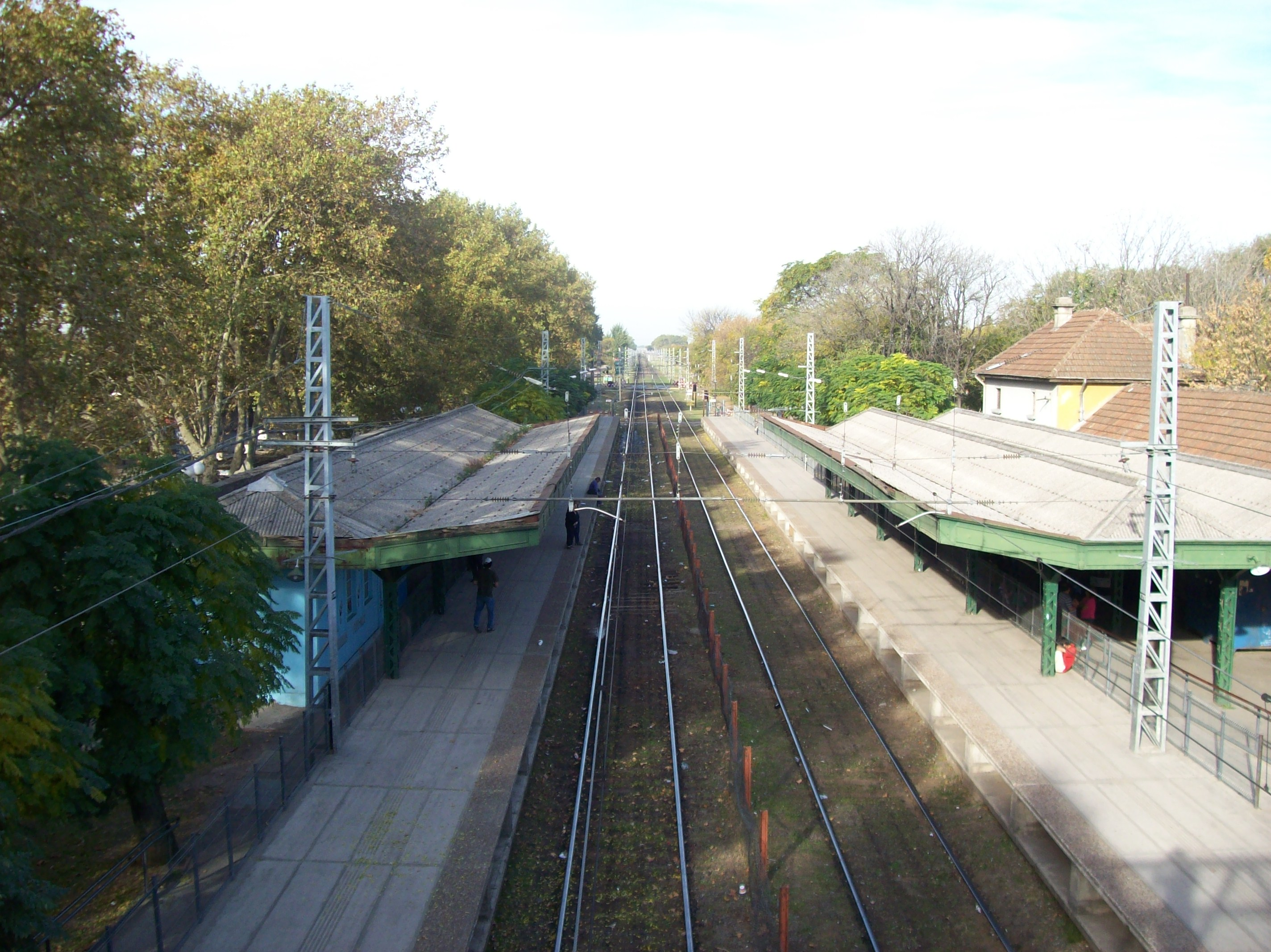 Rafael Calzada train station as seen from the footbridge.